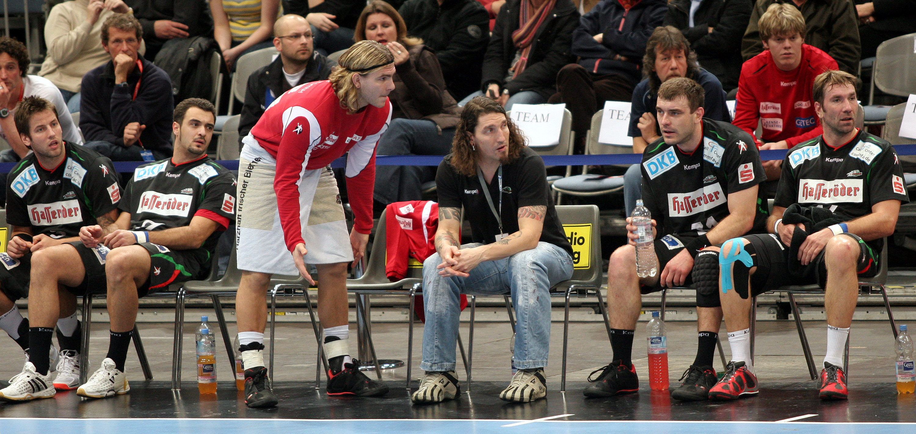 The team from SC Magdeburg (Germany). November 19th, 2008 in Lanxess Arena of Cologne